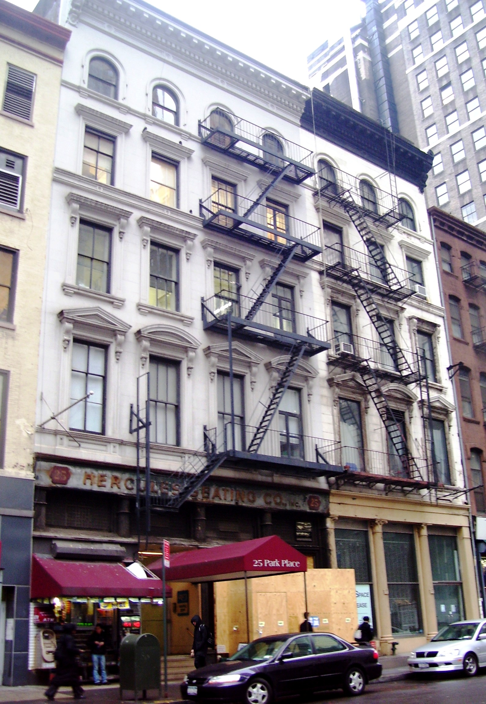 23 (right) and 25 (left) Park Place, going through to Murray Street, between Broadway and Church Street in the Tribeca neighborhood of Manhattan, New York City were built in 1856-57 and were designed by Samuel A. Warner in the Italianate style to be stores and lofts for Lathrop, Luddington & Co., a dry-goods firm. From 1931-1930, they were used by the Daily News. There were designated a NYC landmark in 2007. (Source: Guide to NYC Landmarks (4th ed.))